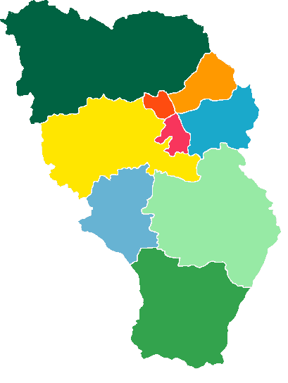 Subdivision of Hohhot